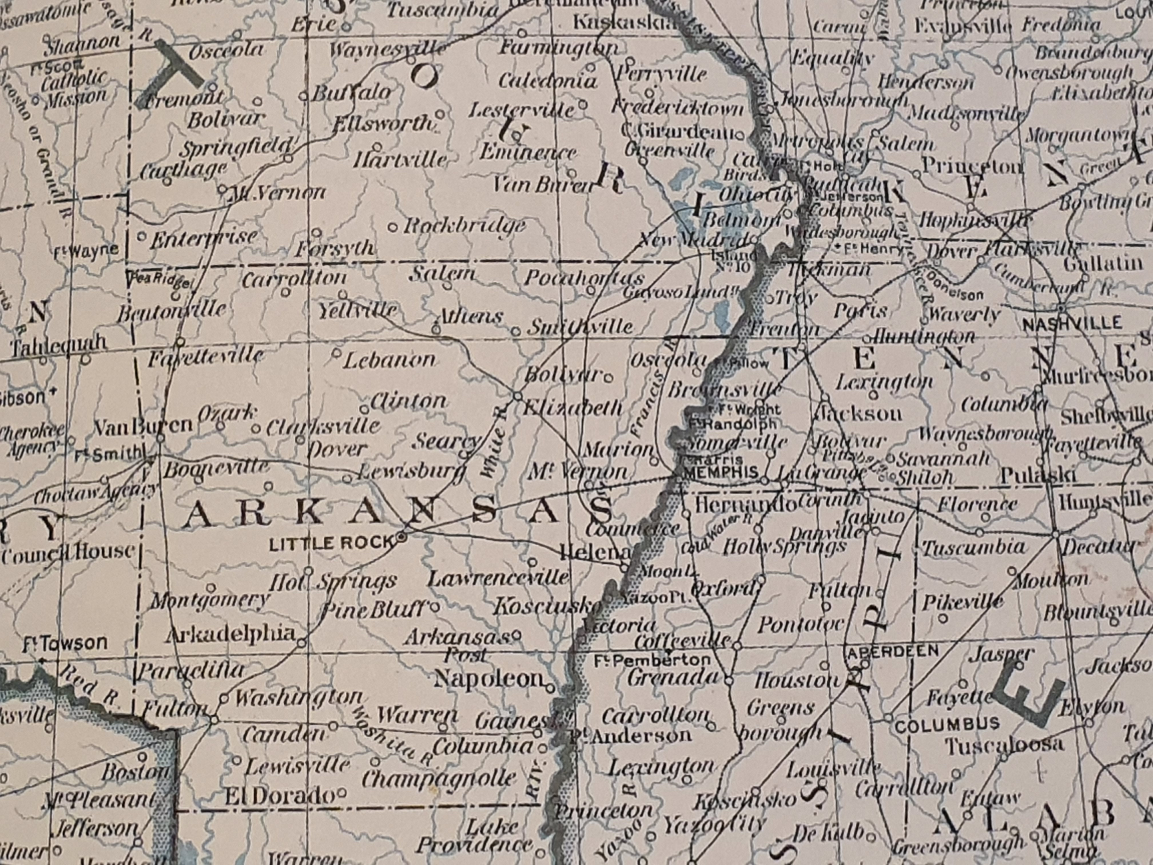 Map of Northwestern Arkansas during American Civil War